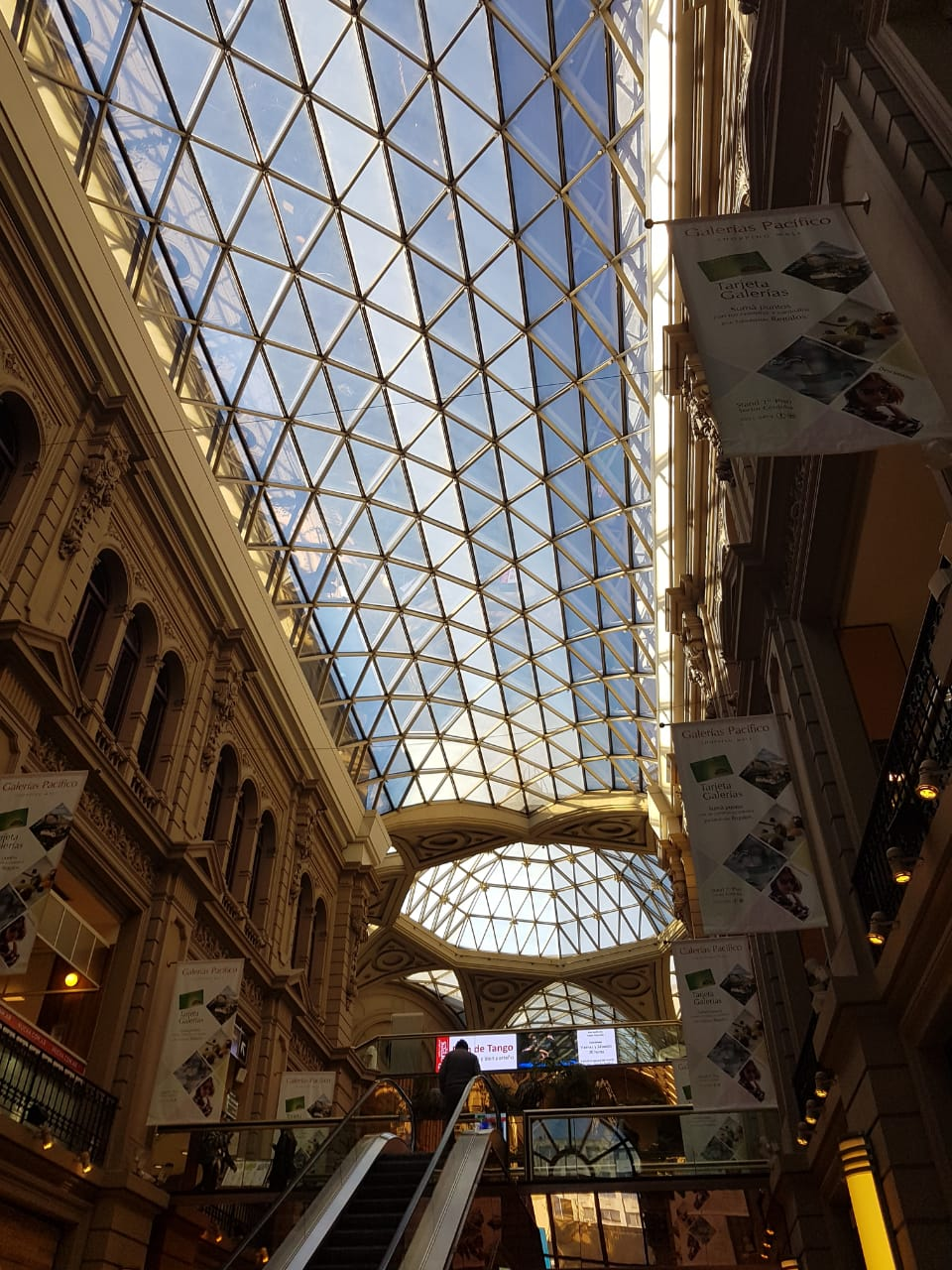 Pacific Galeries rooftop